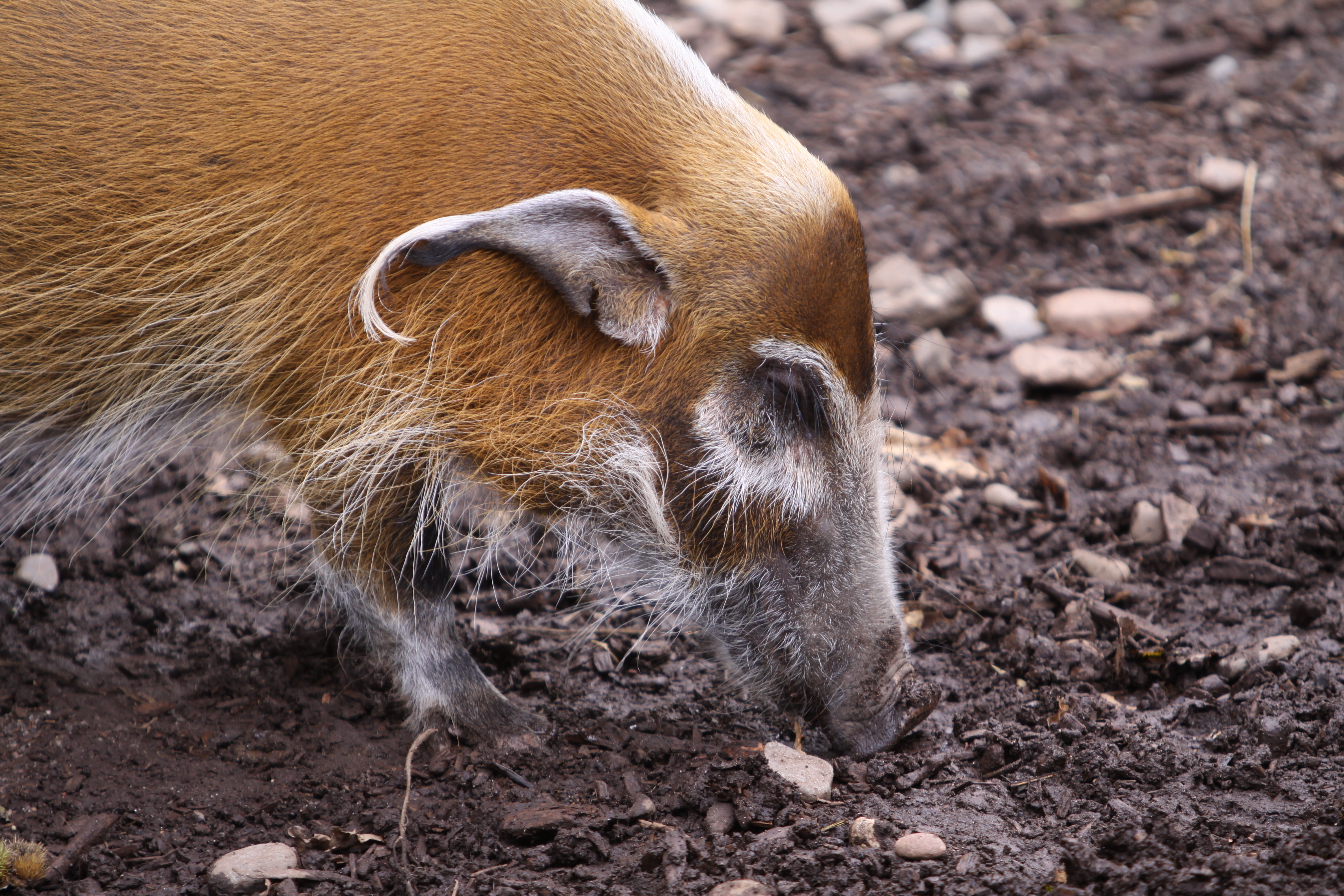 Red river hog (Potamochoerus porcus) at Durrell Wildlife Park (Jersey)